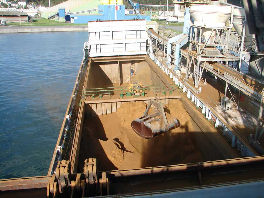 The general cargo ship Velox (85.75 m, 3,502 DWT) unloading rapeseed in Brest. IMO Number: 8918291 MMSI Number: 235008300 Callsign: MGNA4 Beam: 14.0m